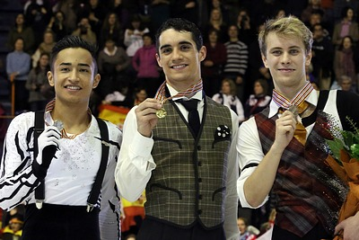 The Men's podium at the 2013 European Championships. From left to right: Florent Amodio (2nd), Javier Fernández (1st), Michal Březina (3rd).